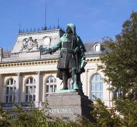 Monument to Janez Vajkard Valvasor in Ljubljana. Work of Alojzij Gangl (1859-1935).